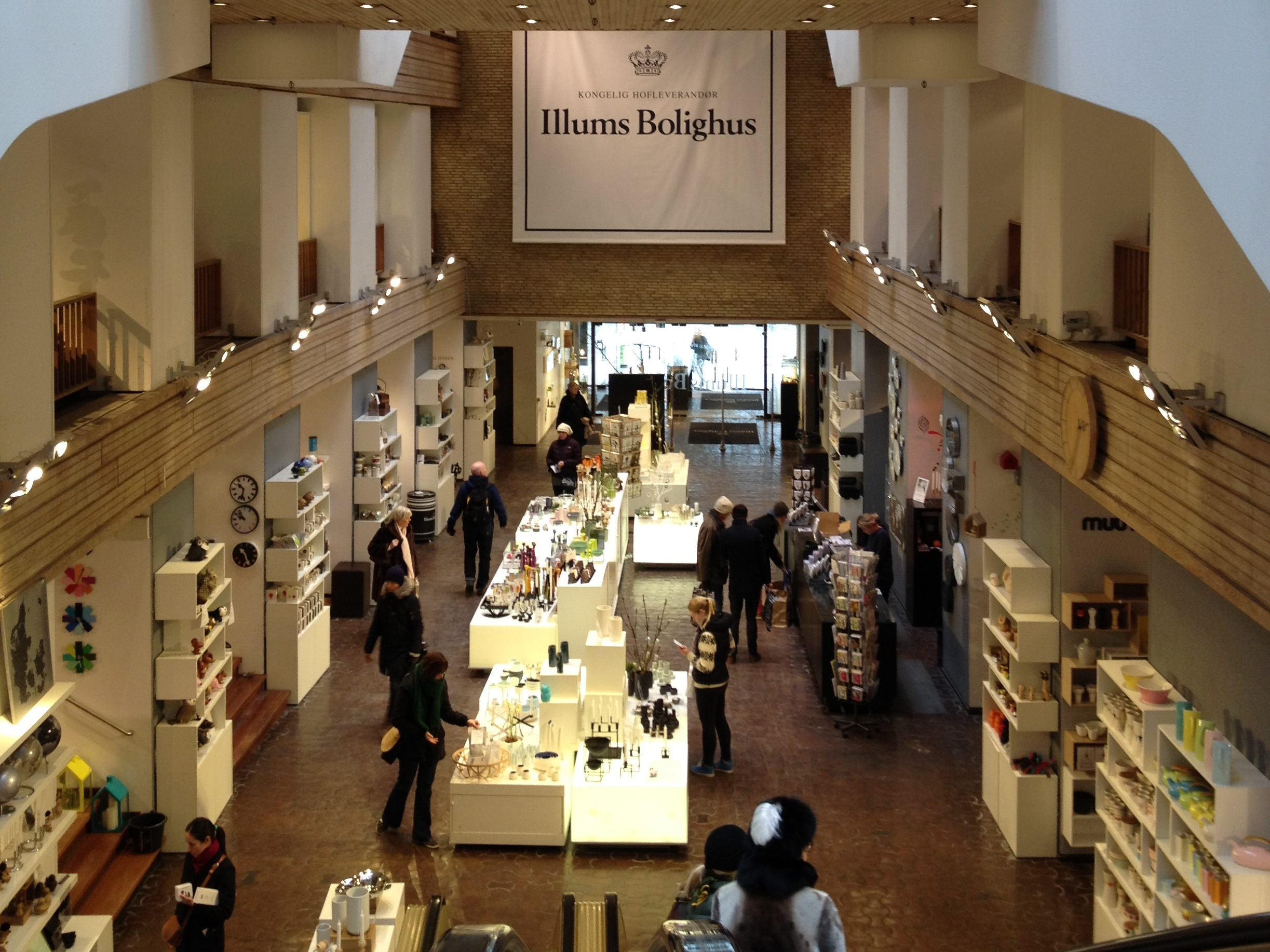 Illums Bolighus in Copenhagen, Denmark.